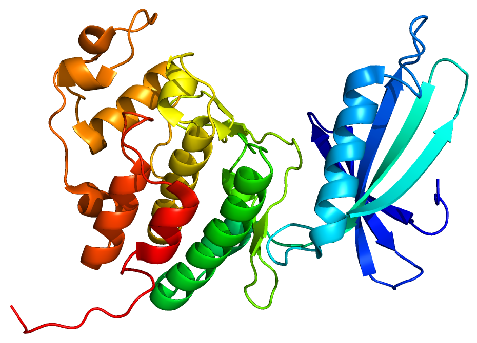 Structure of protein CDK4.Based on PyMOL rendering of PDB 1LD2.